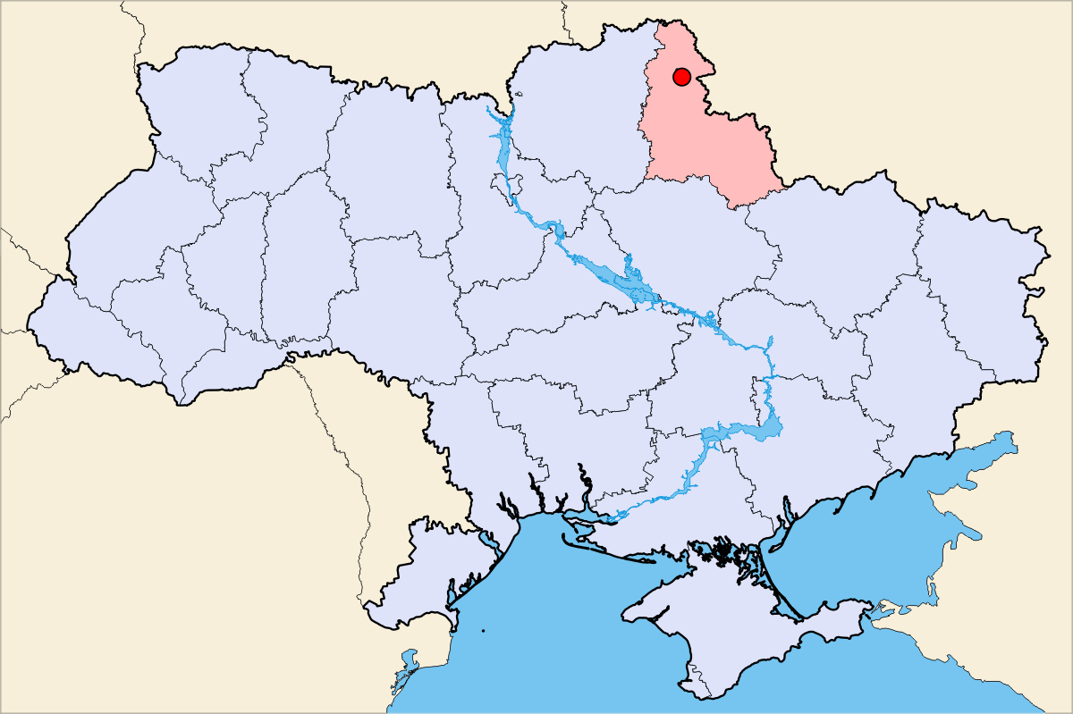 Description = Hlukhiv geographical position Source = own work, User:DDima Date = 22.01.2006 Author = User:DDima Credits = Colours chosen according to a map of steschke